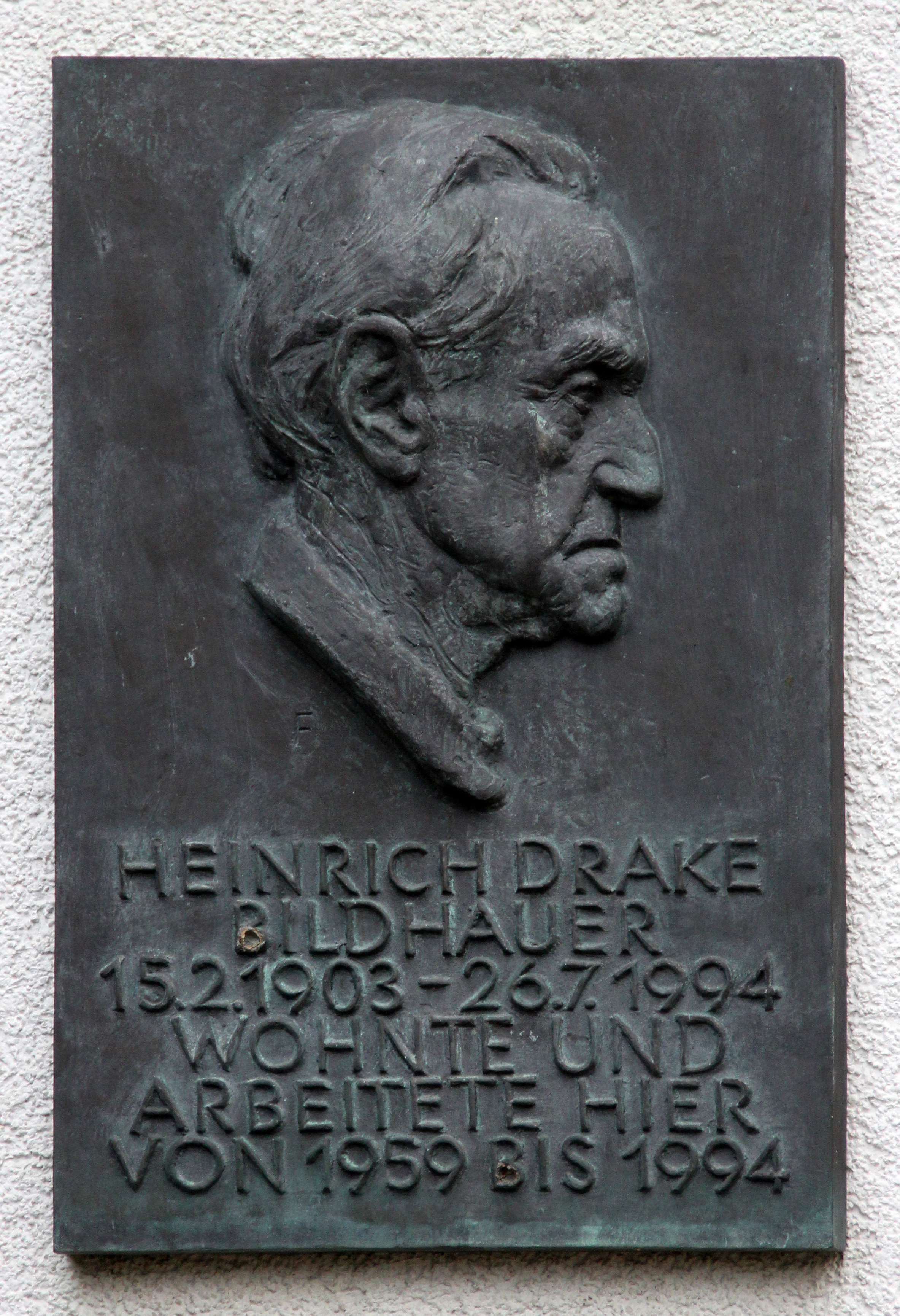 Memorial plaque, Heinrich Drake, Hochlandstraße 13, Berlin-Rahnsdorf, Germany